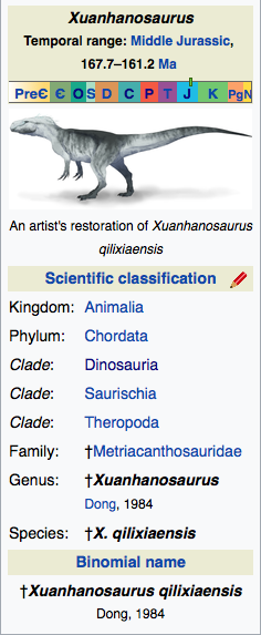 The taxobox of the article Xuanhanosaurus on the English Wikipedia.